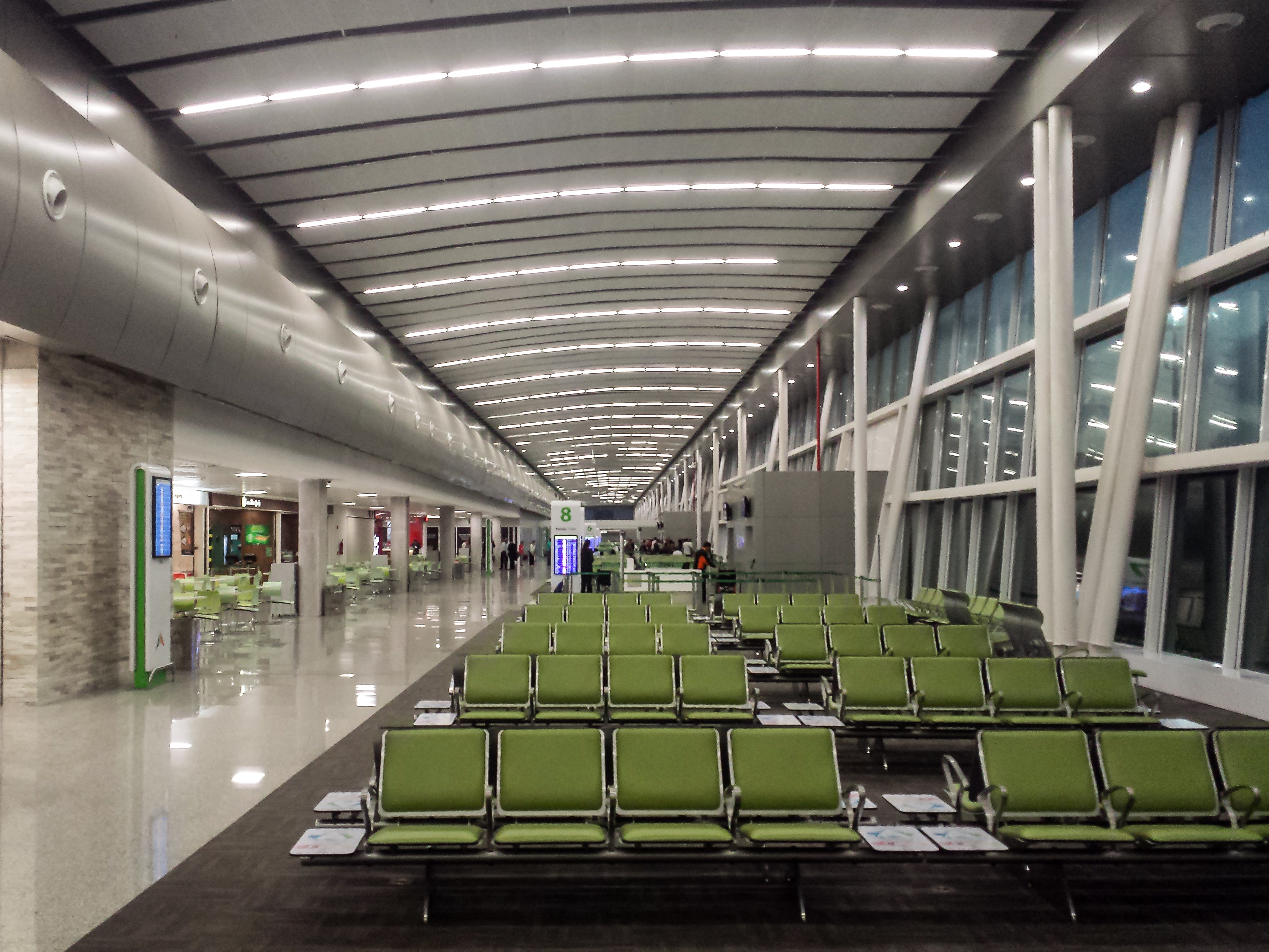 Inside the Terminal at Greater Natal International Airport Brazil